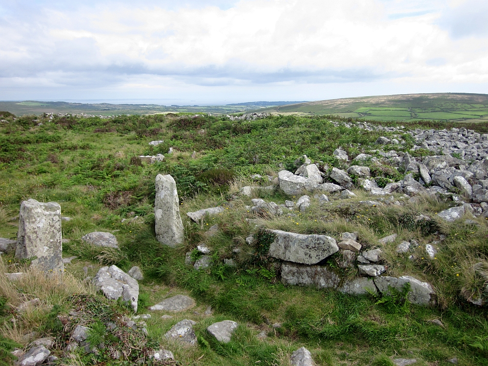 Chûn Castle in Cornwall UK